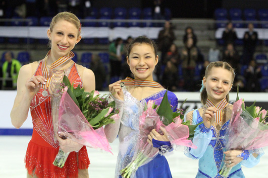 Agnes Zawadzki (2), Kanako Murakami (1), Polina Agafonova (3) at the 2010 World Junior Figure Skating Championships